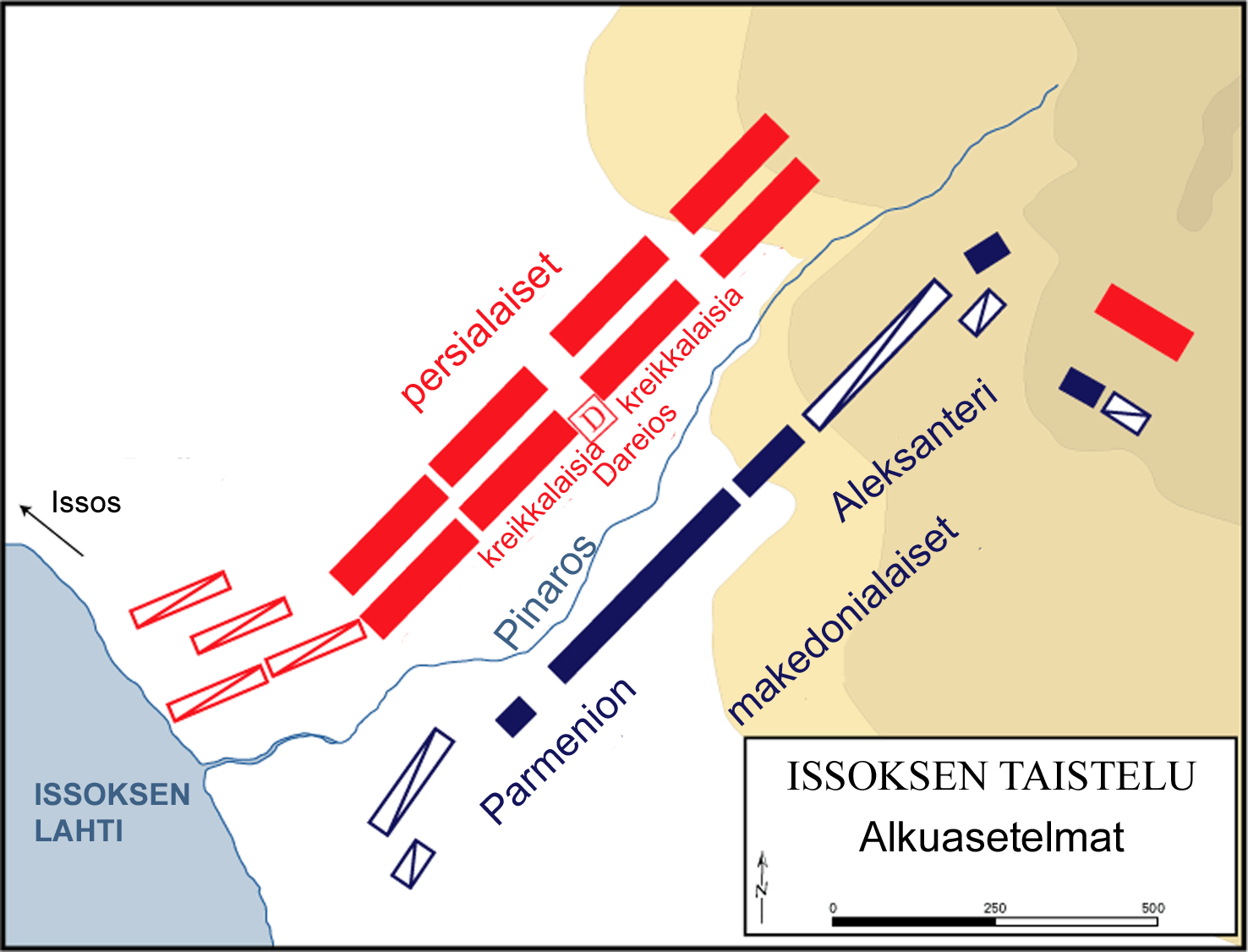 Version of Image:Battle issus initial.gif with finnish labels.